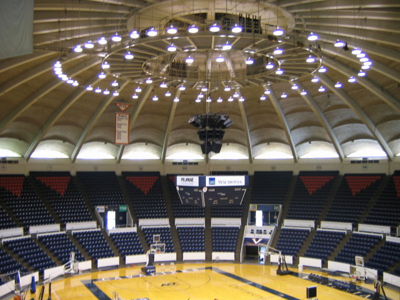 image has been uploaded to Wikimedia Commons at University of Virginia University Hall.jpg